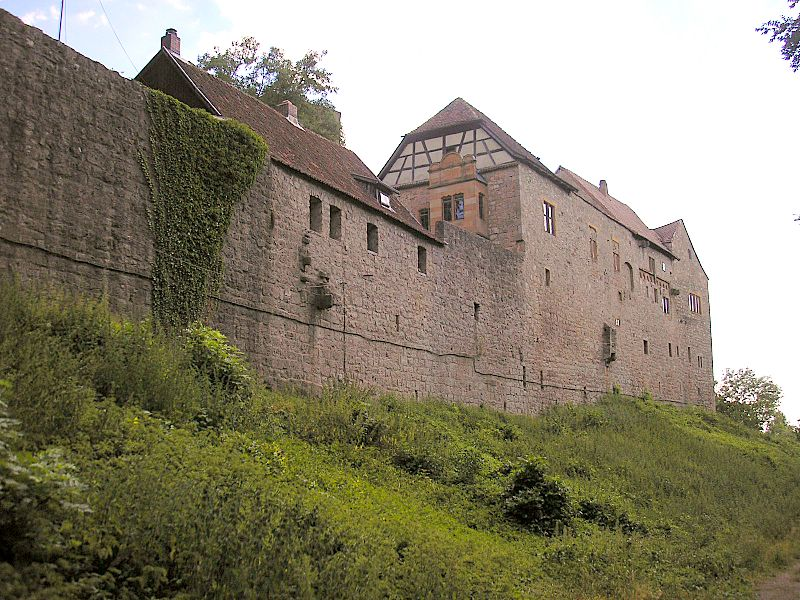 Salzburg castle near Bad Neustadt (Landkreis Rhön-Grabfeld, Lower Franconia, Germany). The western part of the castle, looking south